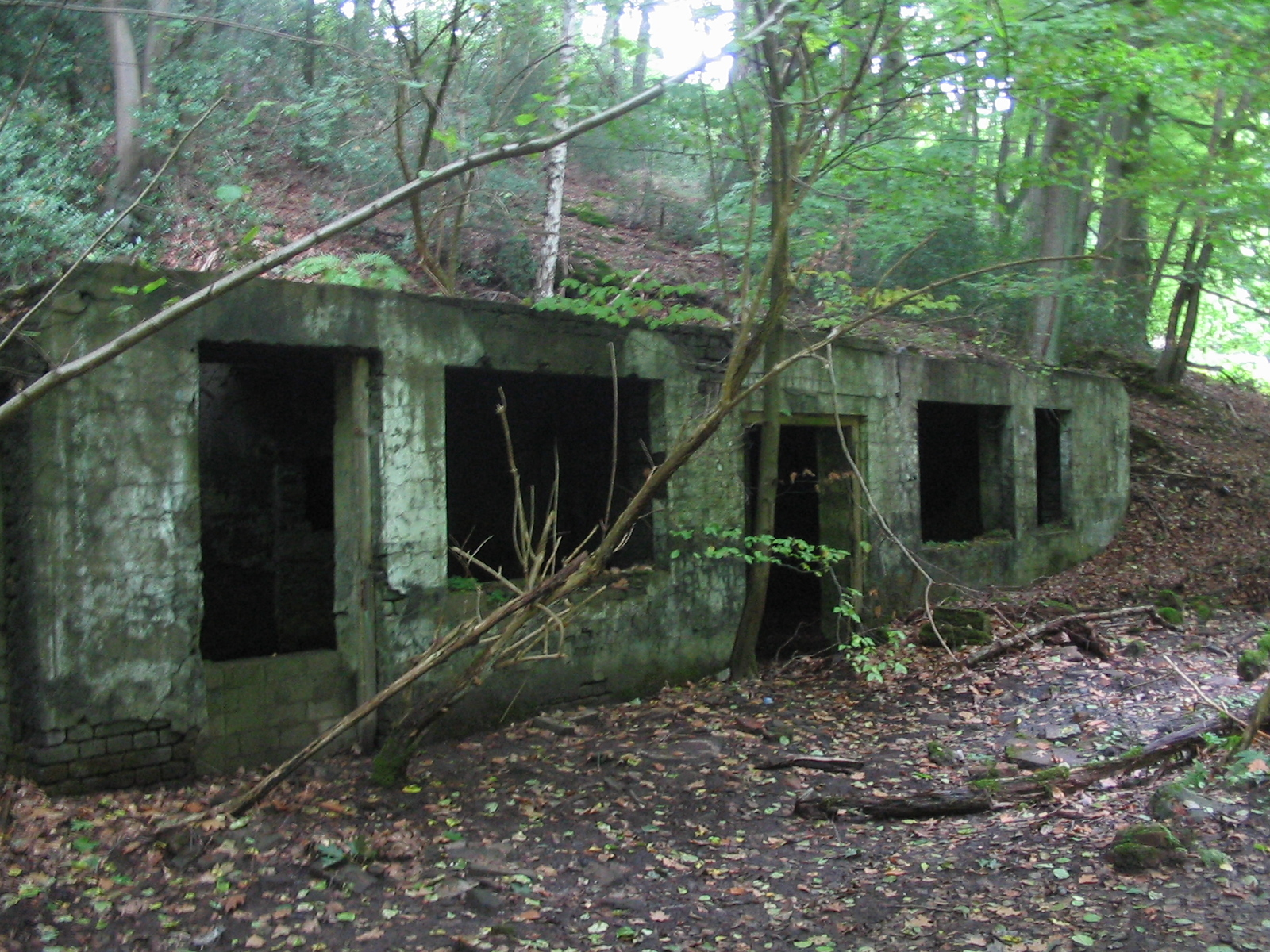 ruins of coal mine Zeche Elisabethenglück in Witten